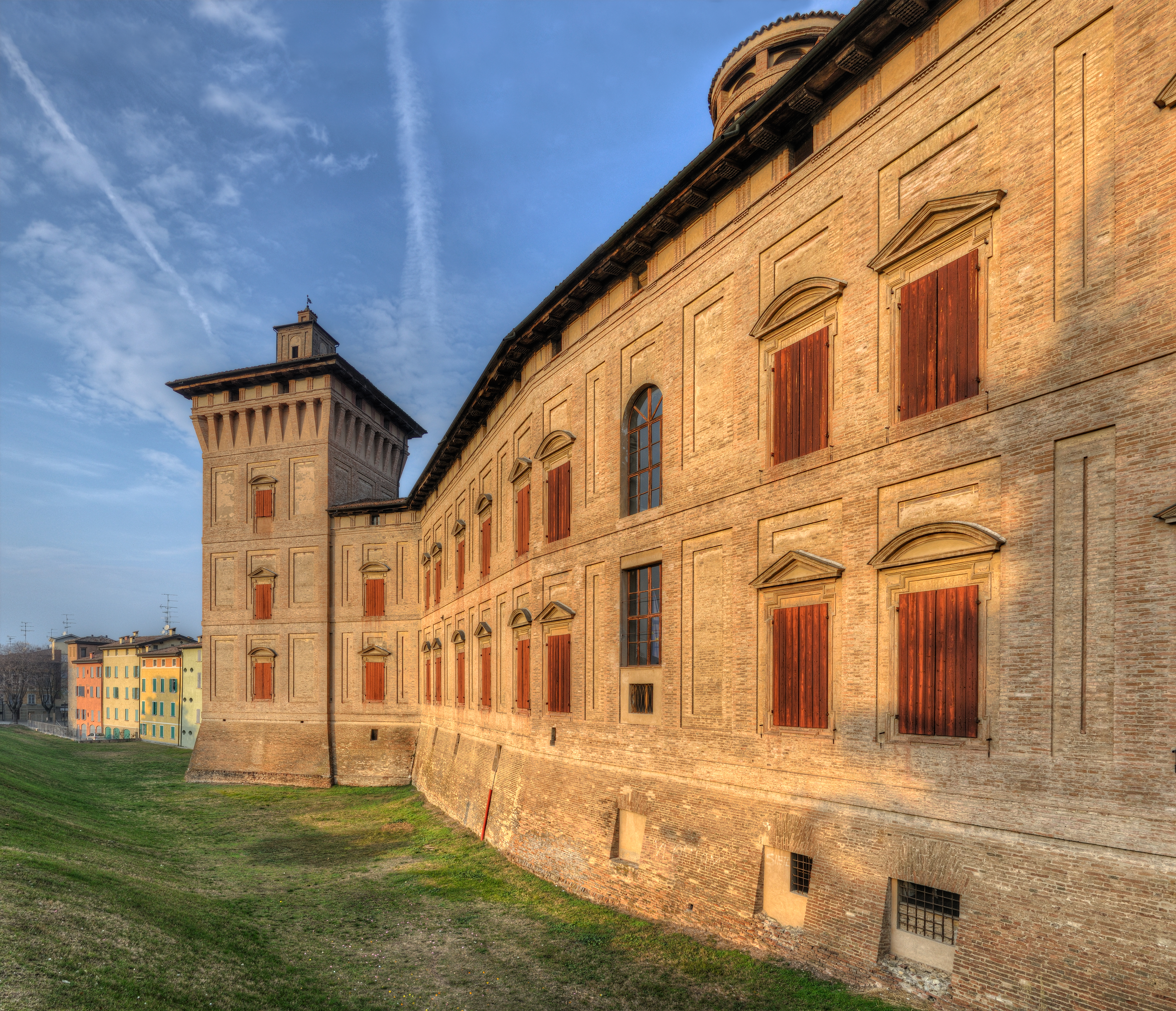 Rocca dei Boiardo - Scandiano, Reggio Emilia, Italia